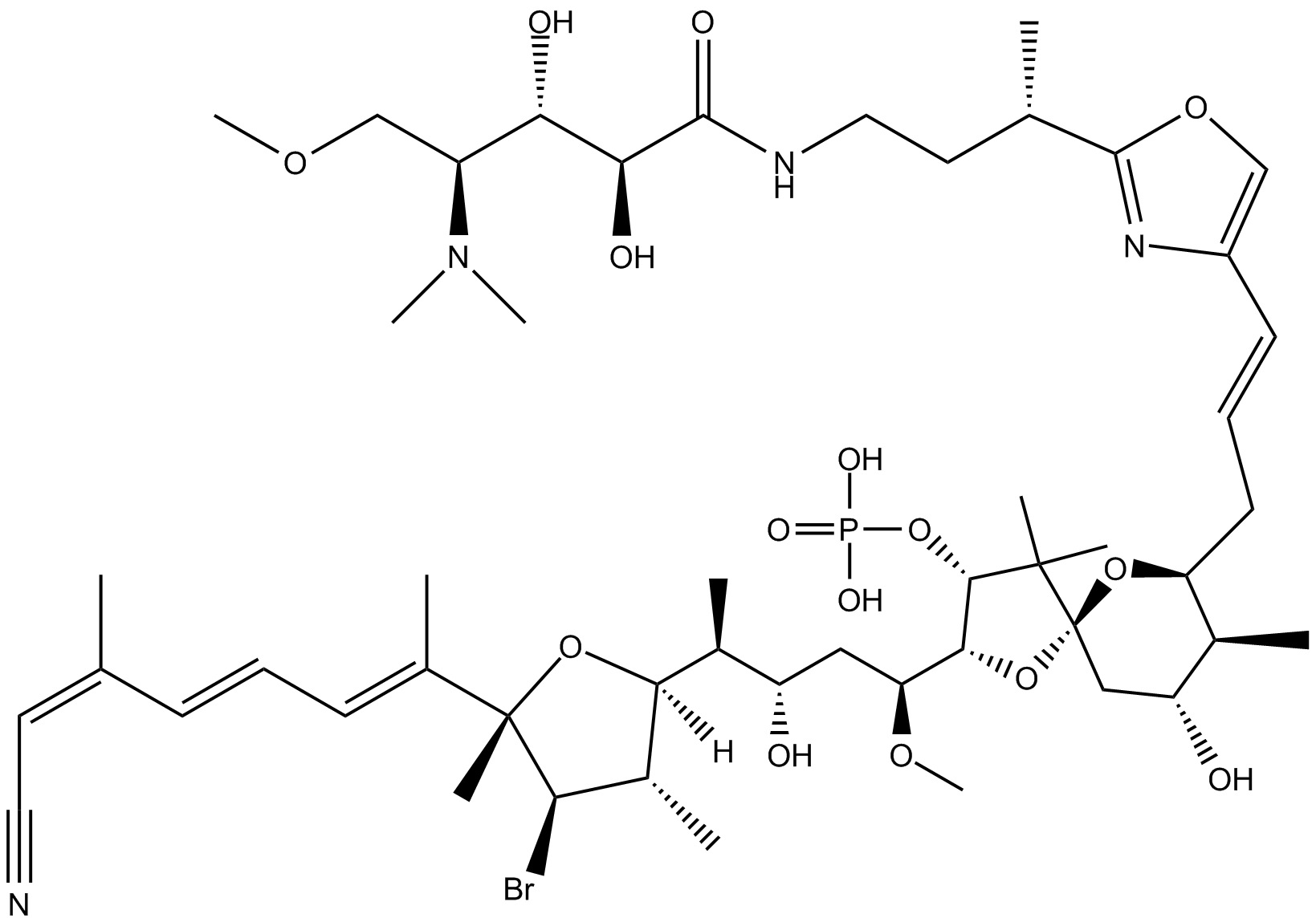 The structure of calyculin J. Drawn with ChemBioDraw Ultra 12.0.2